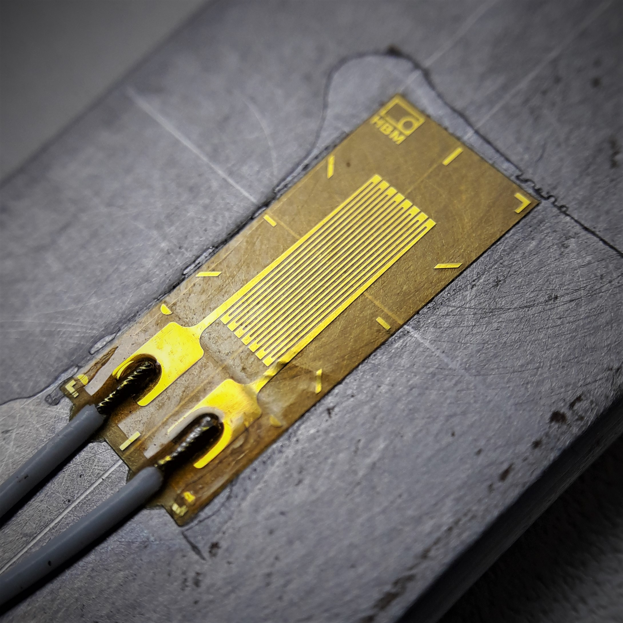 Strain gauge